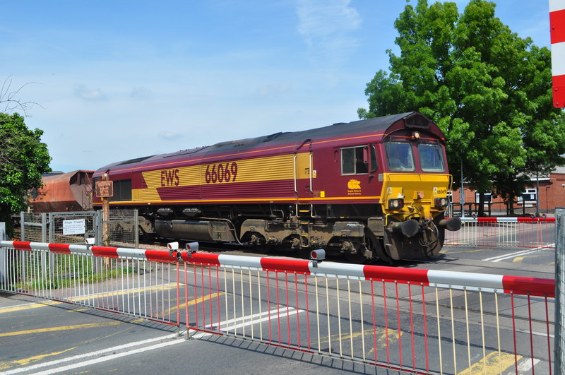 EWS Class 66 (66069) at March East, near to March, Cambridgeshire, Great Britain. The low emission Canadian locomotive taking a freight away from March. With Whitemoor goods yard having been re-opened there are as many freights as there are passenger trains here. EWS or English, Welsh and Scottish was bought out by DBS or DB Schenker, the German Railway company. See TL5479 : EMD Class 66 diesel locomotive no 66147